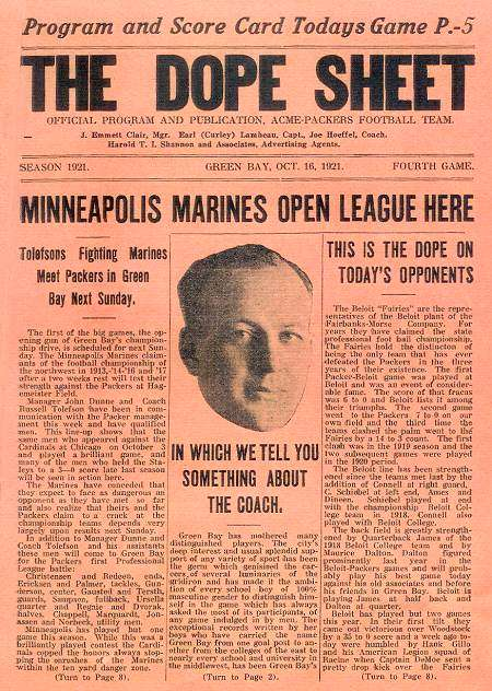 Green Bay Packers' "Dope Sheet" from October 26, 1921 game. 'The Dope Sheet' was the earliest Packer Official Program and Publication, produced from 1921 to 1924.